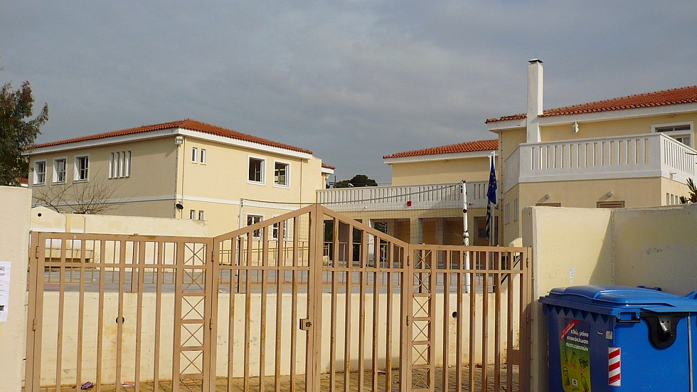 The picture depicts the schools at Kantza.